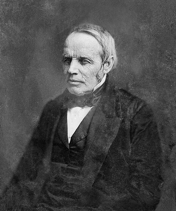 American newspaper editor and politician Azariah Cutting Flagg (28 November 1790 – 24 November 1873). Library of Congress caption: "Azariah C. Flagg, half-length portrait, three-quarters to the left".